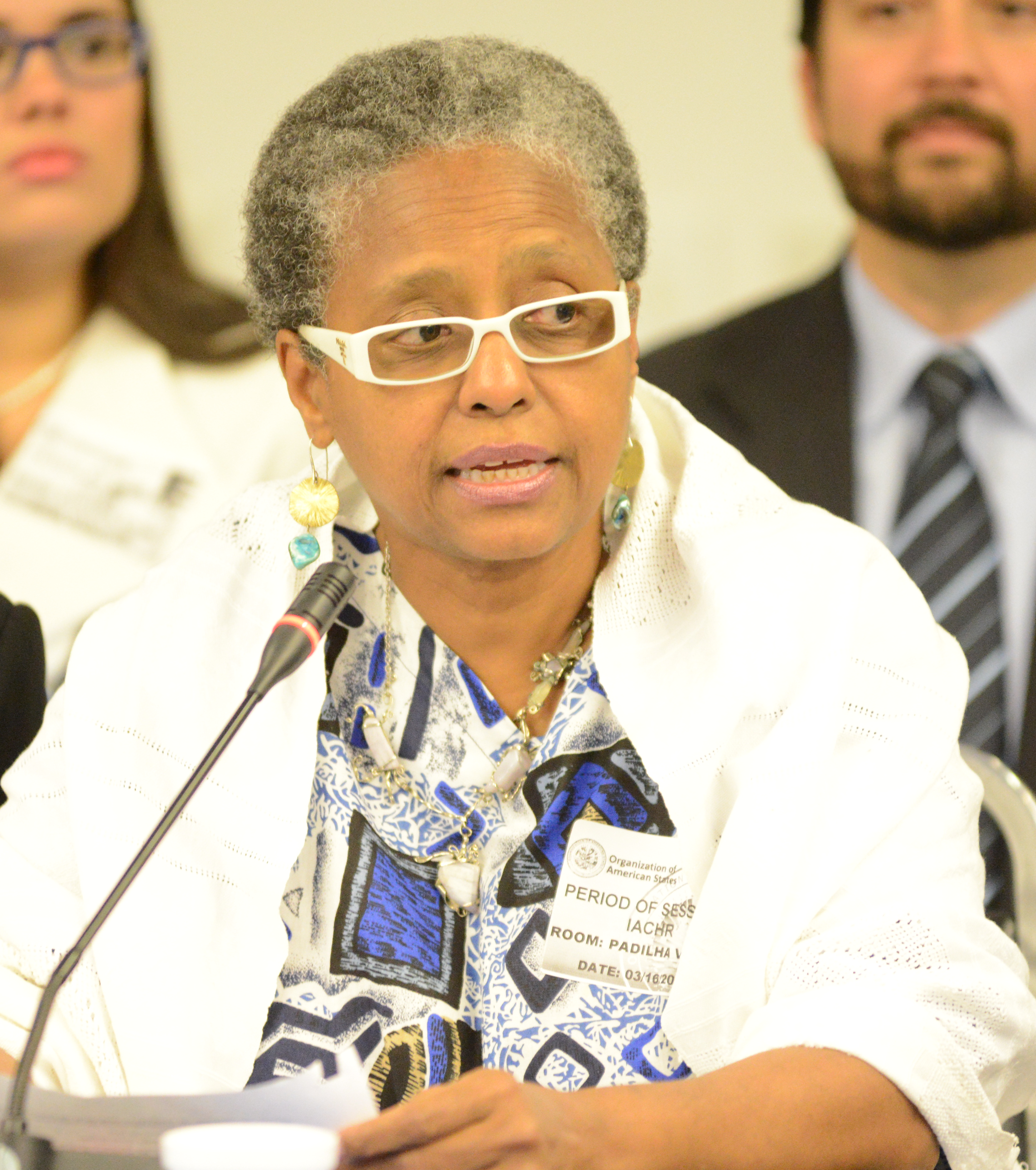 crop of Ana Irma Rivera Lassén Photo credit: Daniel Cima